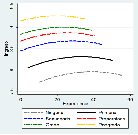 Income level - Mincerian earnings function